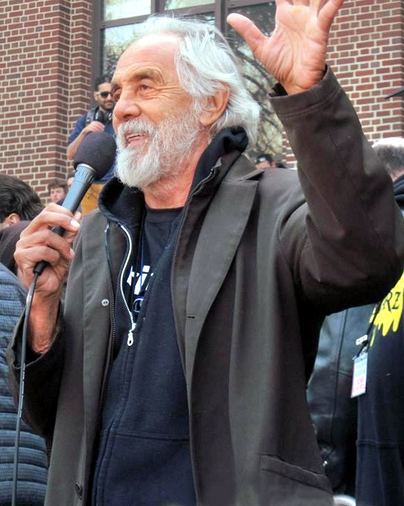 Tommy Chong speaks at Hash Bash in Ann Arbor, Michigan in April of 2015.